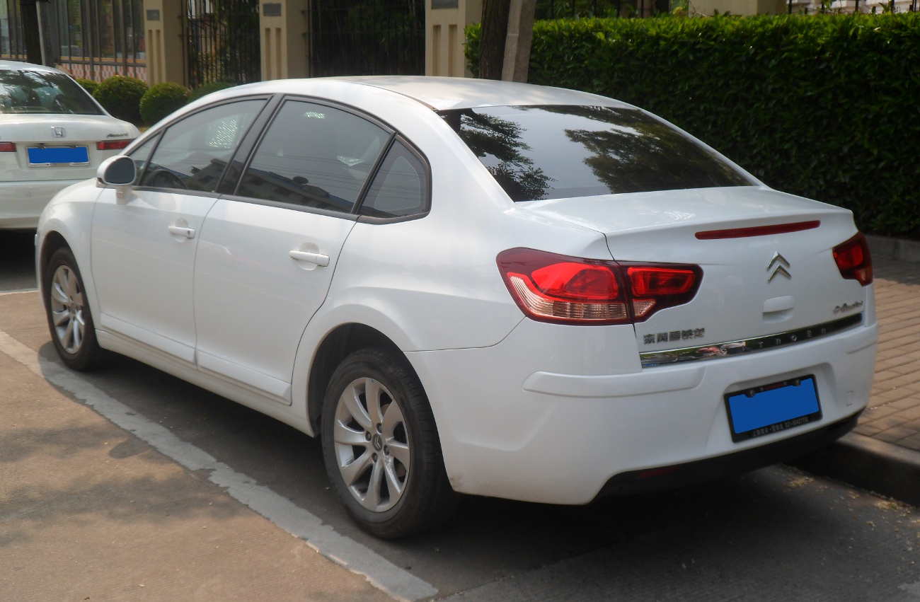 Citroën C-Quatre sedan photographed in Shanghai, China.